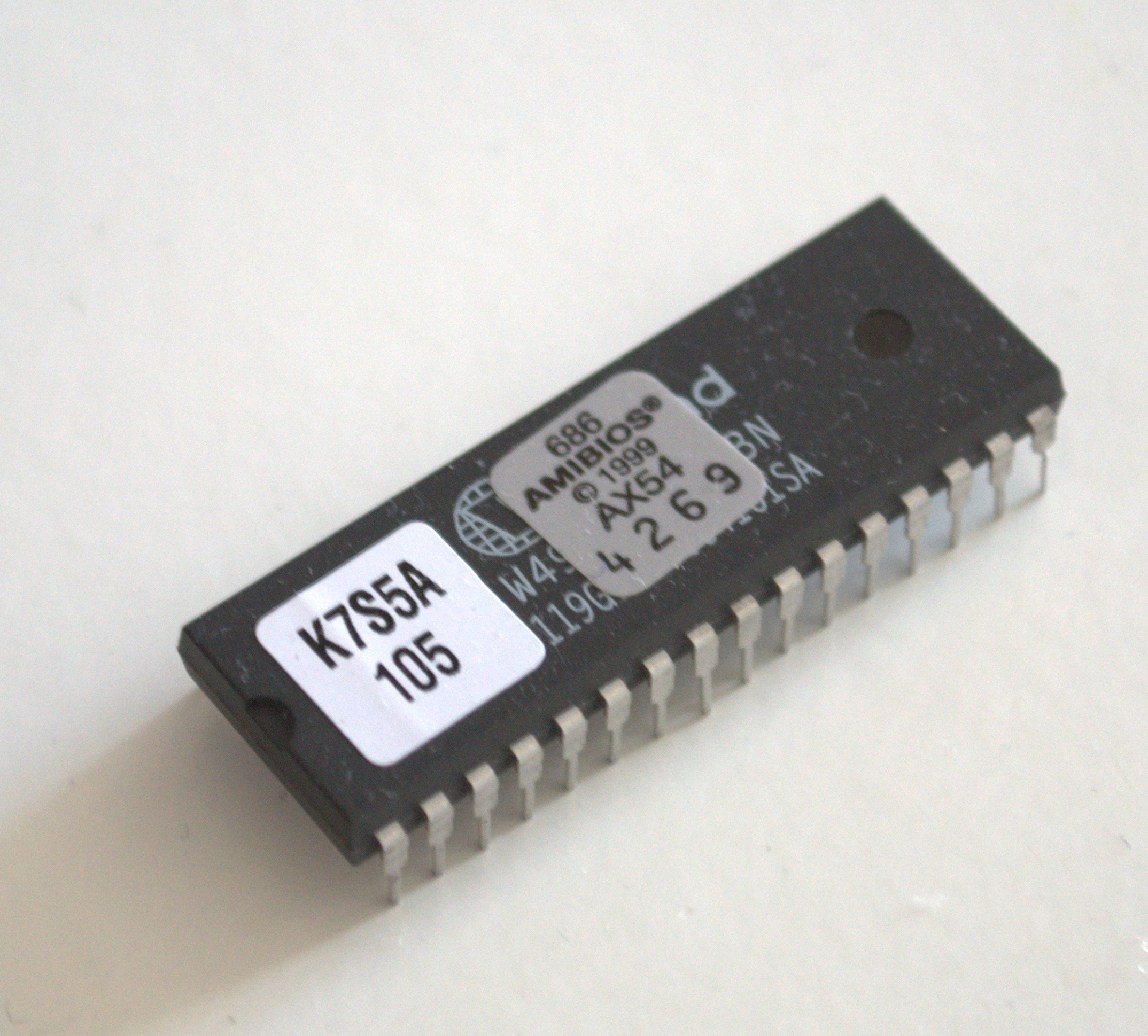 An AMIBIOS from a ECS K7S5A Motherboard.